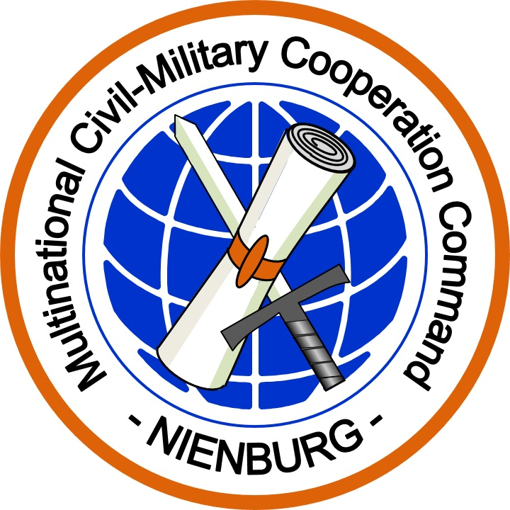 Internal coat of arms of the Bundeswehr (Armed Forces of the Federal Republic of Germany). → Remarks on naming and categorization scheme